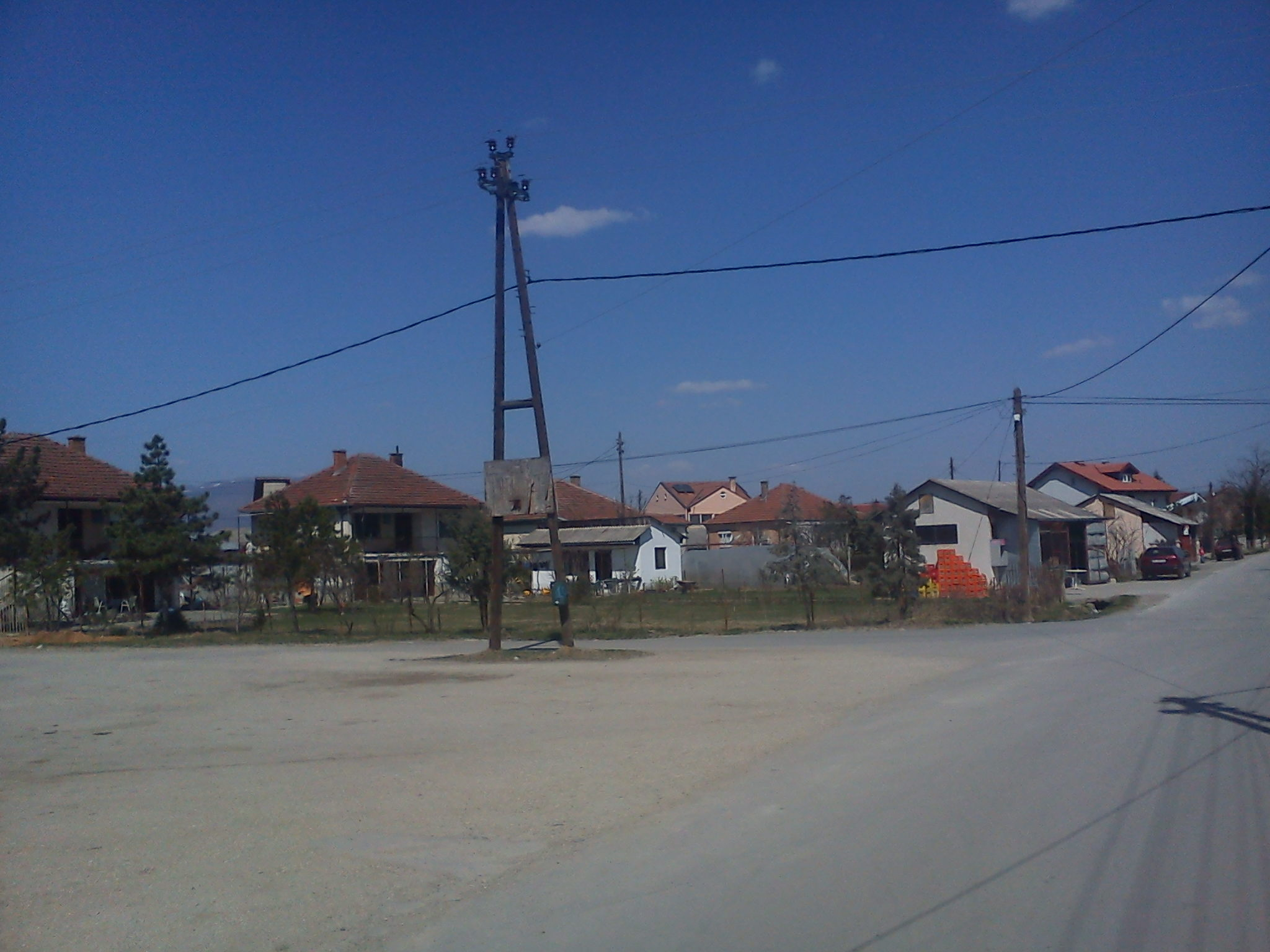 The main street in the village of Mralino, Macedonia